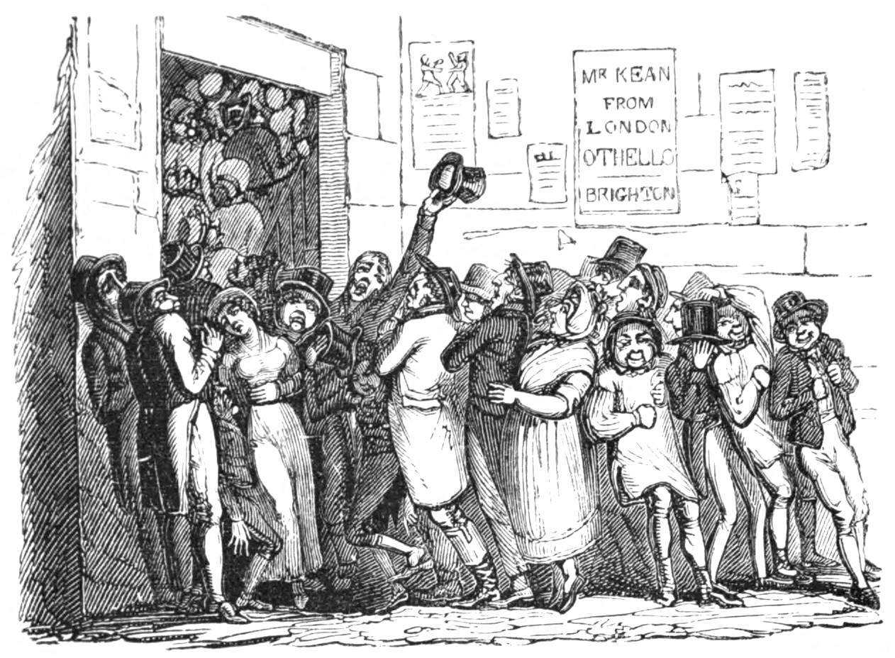 Illustration from English Caricaturists and Graphic Humourists of the Nineteenth Century, by William Rodgers Richardson (writing as Graham Everitt) Engraving by Theodore Lane Caption: "The Gallery.—Powerful Attraction of Talent" Published 1824, in Life of an Actor